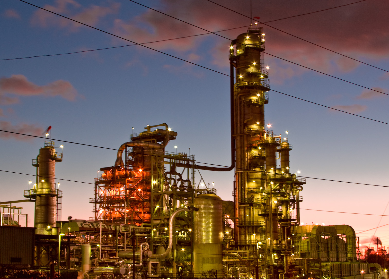 A few blocks from my house is the El Segundo Chevron oil refinery. Three police cars came while I was taking this photograph. They were very nice, and given that I was outside the premises, there is nothing illegal about it. If I could get a bit closer those annoying cables would be behind me.